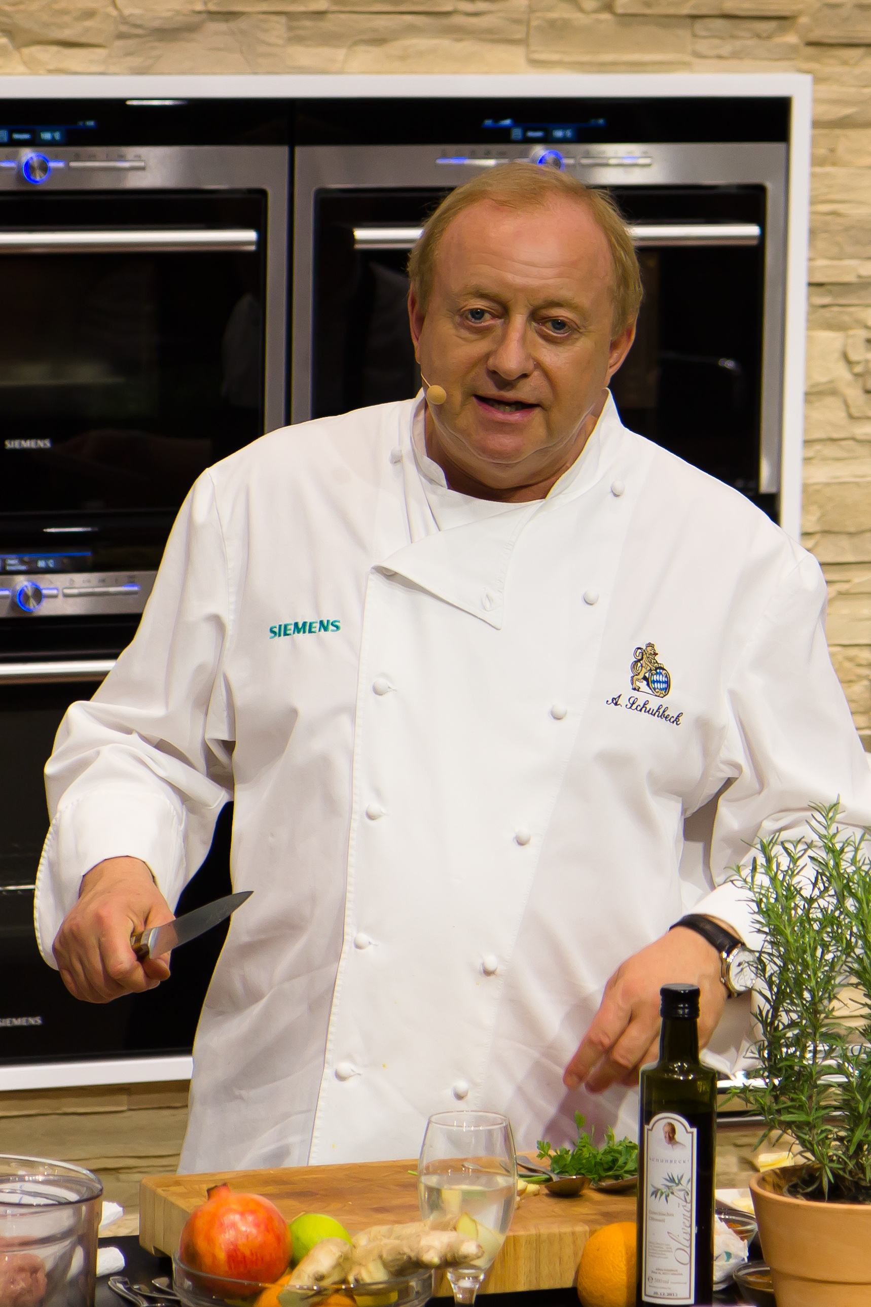 German Michelin star chef Alfons Schuhbeck during a live cooking event at IFA 2011, Berlin, Germany.